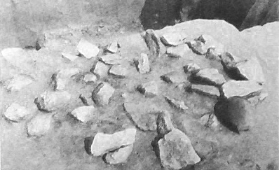 Rocks from an Early Archaic period (c. 8000-6000 B.C.) hearth excavated in the 1970s at the Icehouse Bottom site near Vonore, Tennessee, USA. The Icehouse Bottom excavations were part of the greater Tellico Basin excavations funded by the Tennessee Valley Authority.